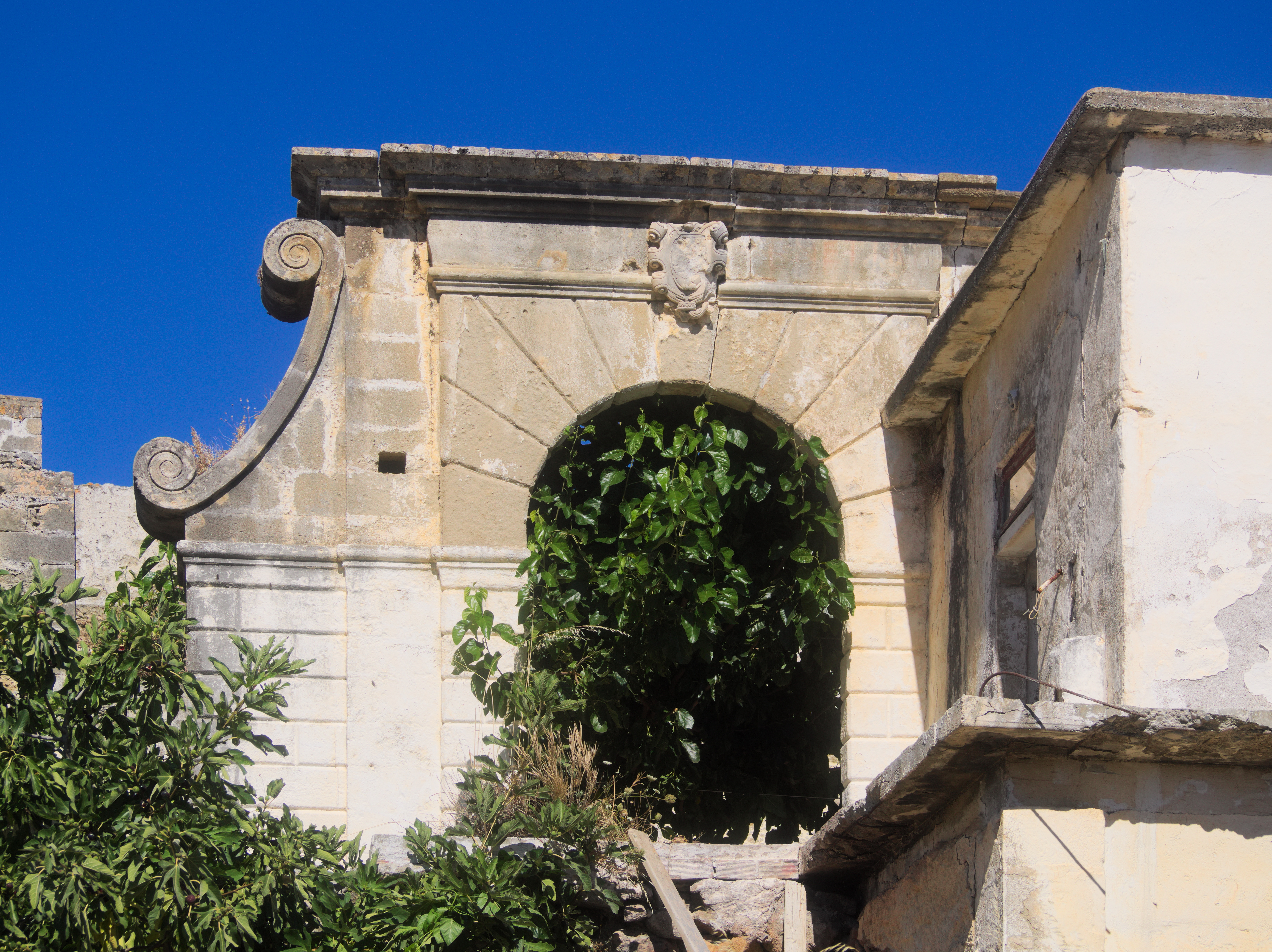 The portal of a venetian villa in Kalathenes, bearing a partially destroyed coat of arms.